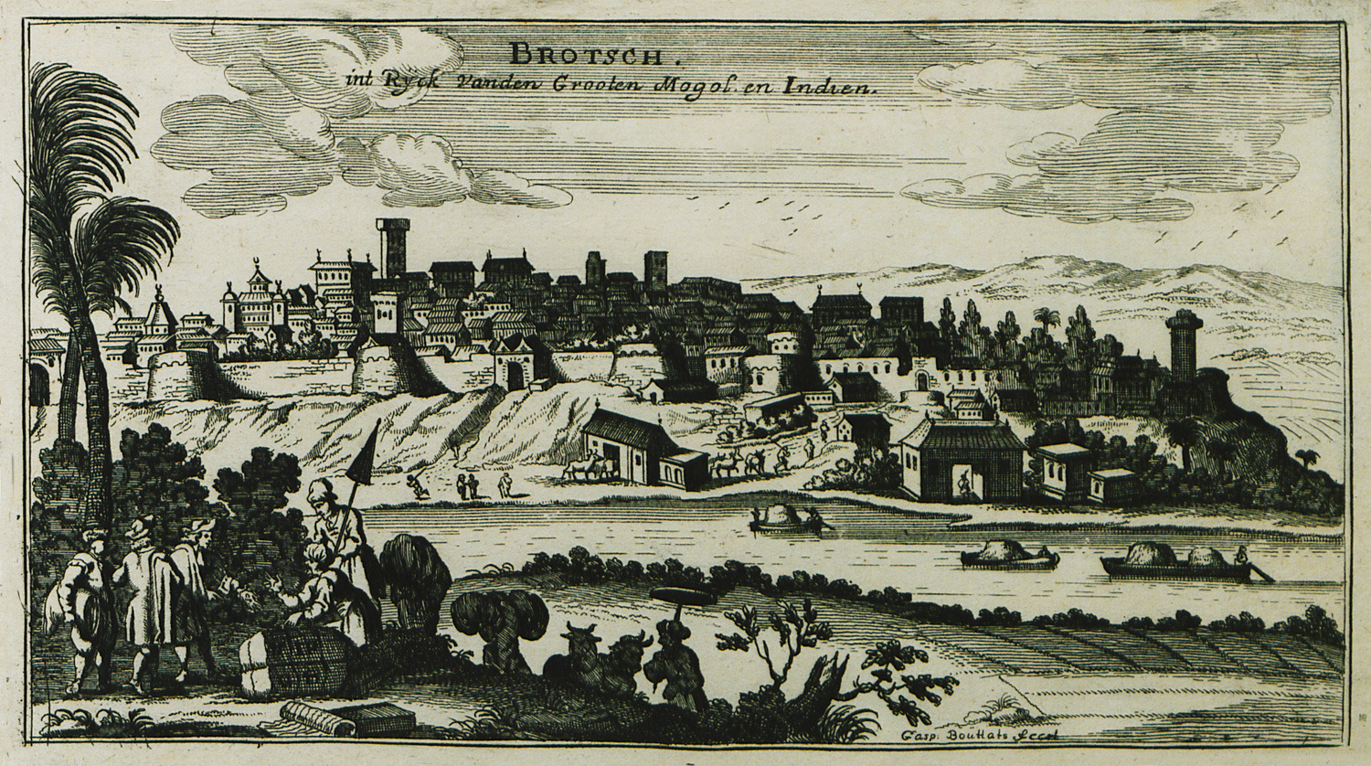 Jacob Peeters. Description des principales villes, havres et isles du golfe de Venise du coté oriental. Comme aussi des villes et forteresses de la Moree, et quelques places de la Grèce, Antwerp, Sur le marché des vieux Souliers, 1690.